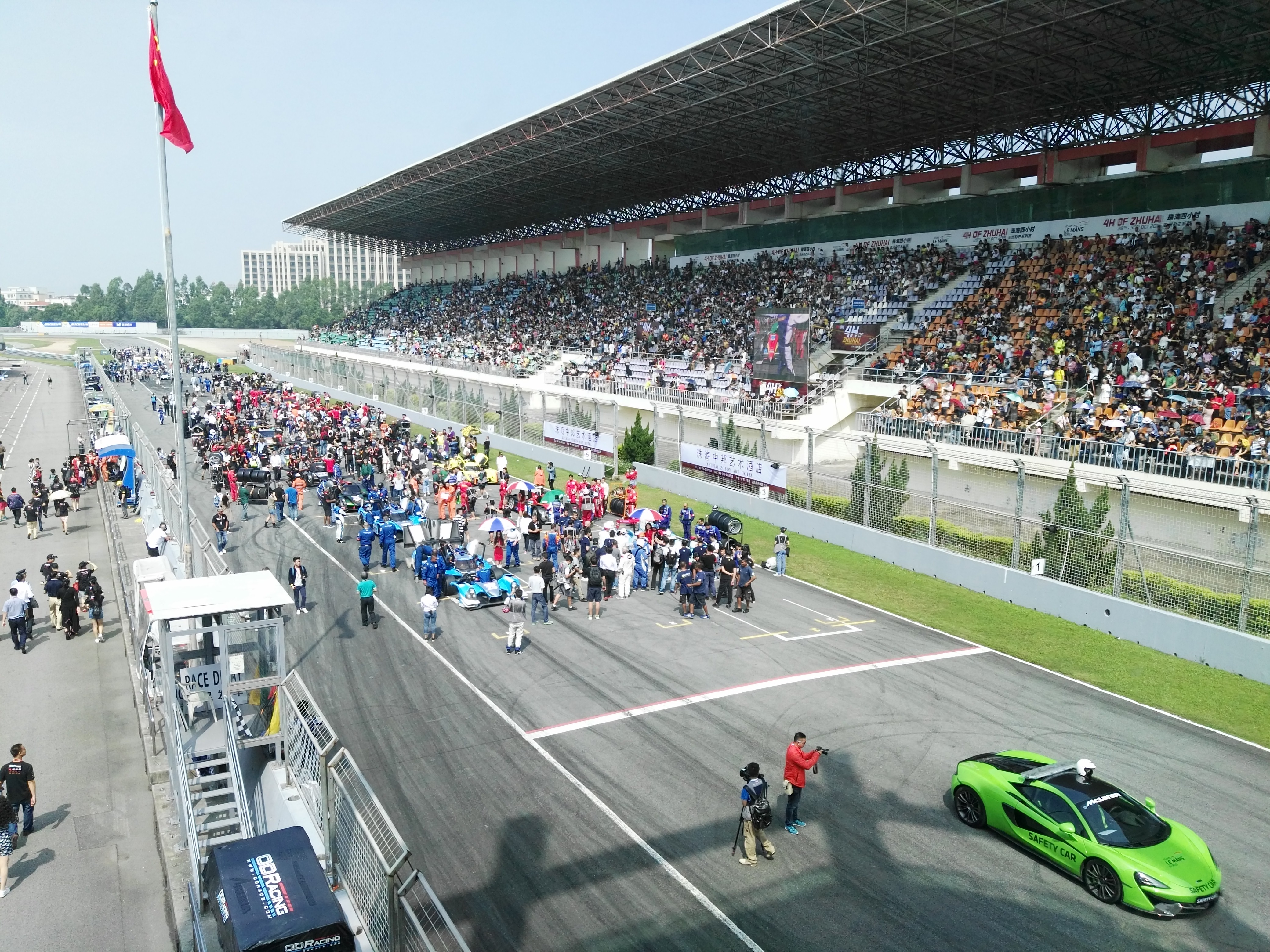 2016 Asian Le Mans Series Zhuhai Round grid 粵語: 2016 亞洲勒芒系列賽 珠海站 發車區